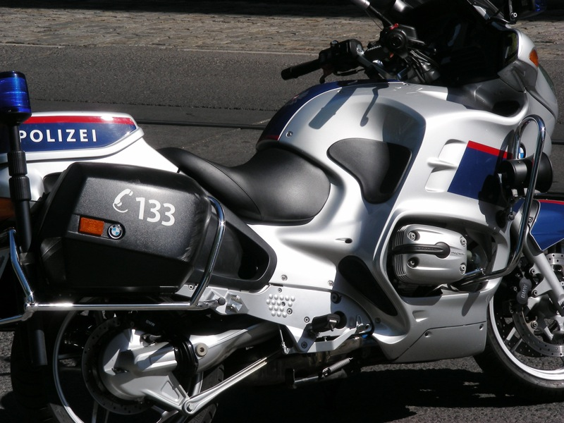 Austria Police Motorcycle